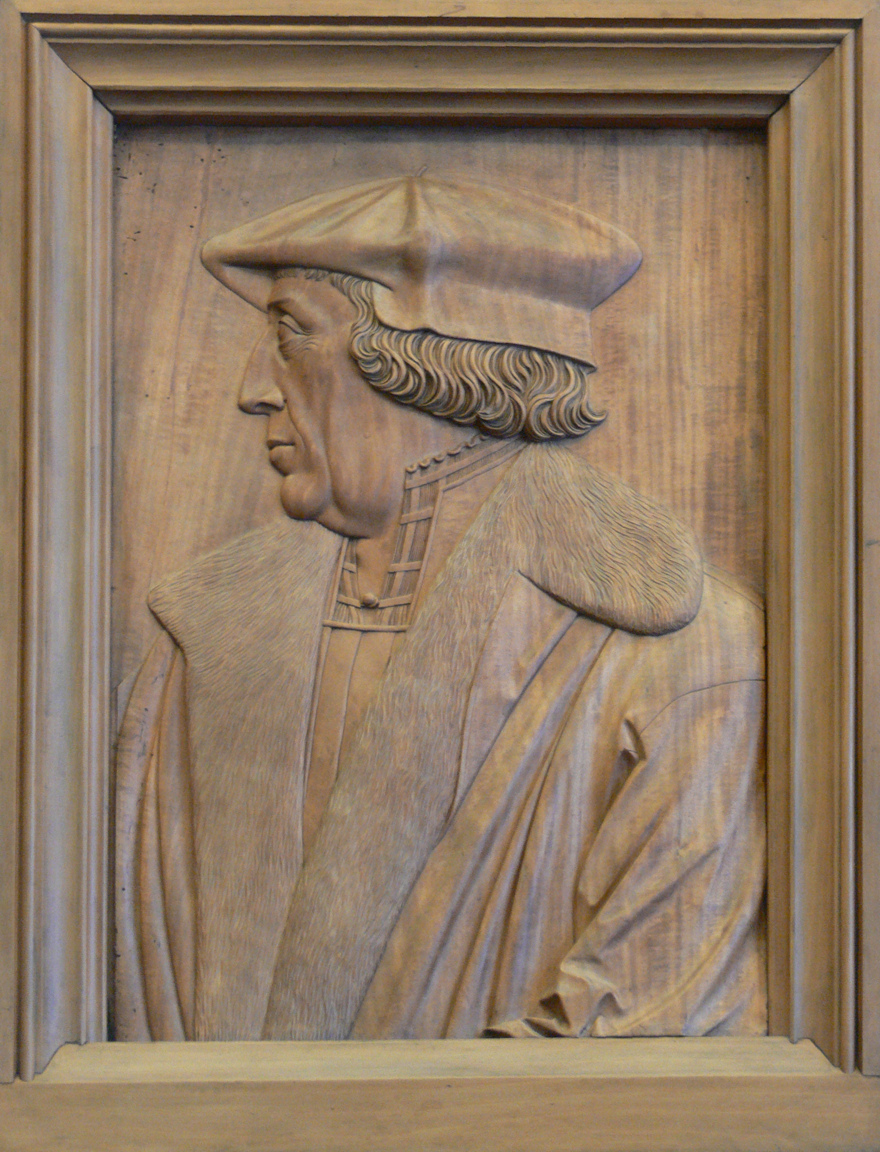 Bishop Philipp of Freising